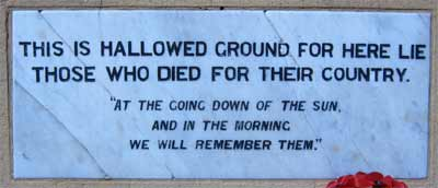 Category:Images of Canberra Inscription stone from the Rats of Tobruk Memorial in ANZAC Parade, the principal ceremonial and memorial avenue of Canberra, the national capital city of Australia. I took this picture on 28 April 2005. Peter Ellis 22:11, 6 May 2005 (UTC)